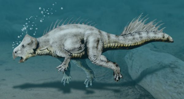 Koreaceratops